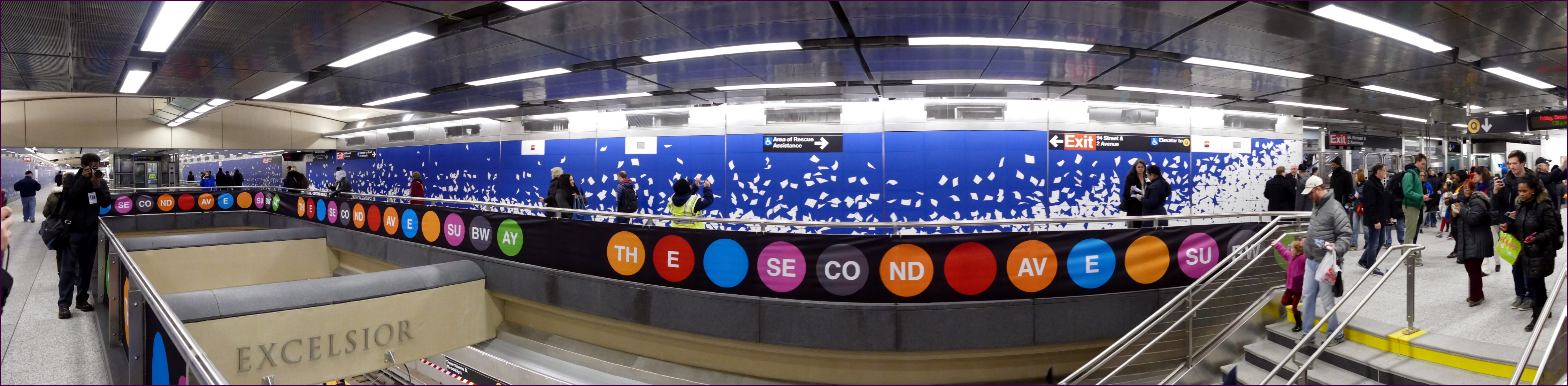 2 Ave Subway 96 St Station Preview